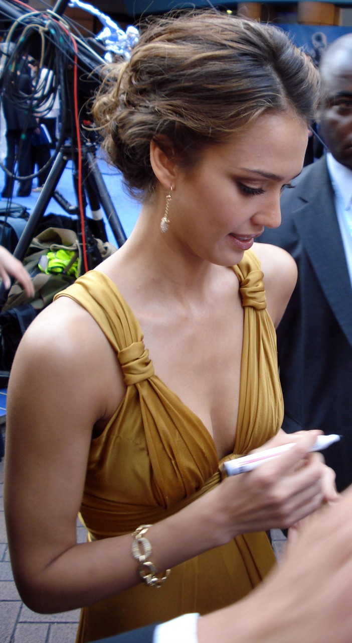 Jessica Alba at the Fantastic Four: Rise of the Silver Surfer premiere in London.